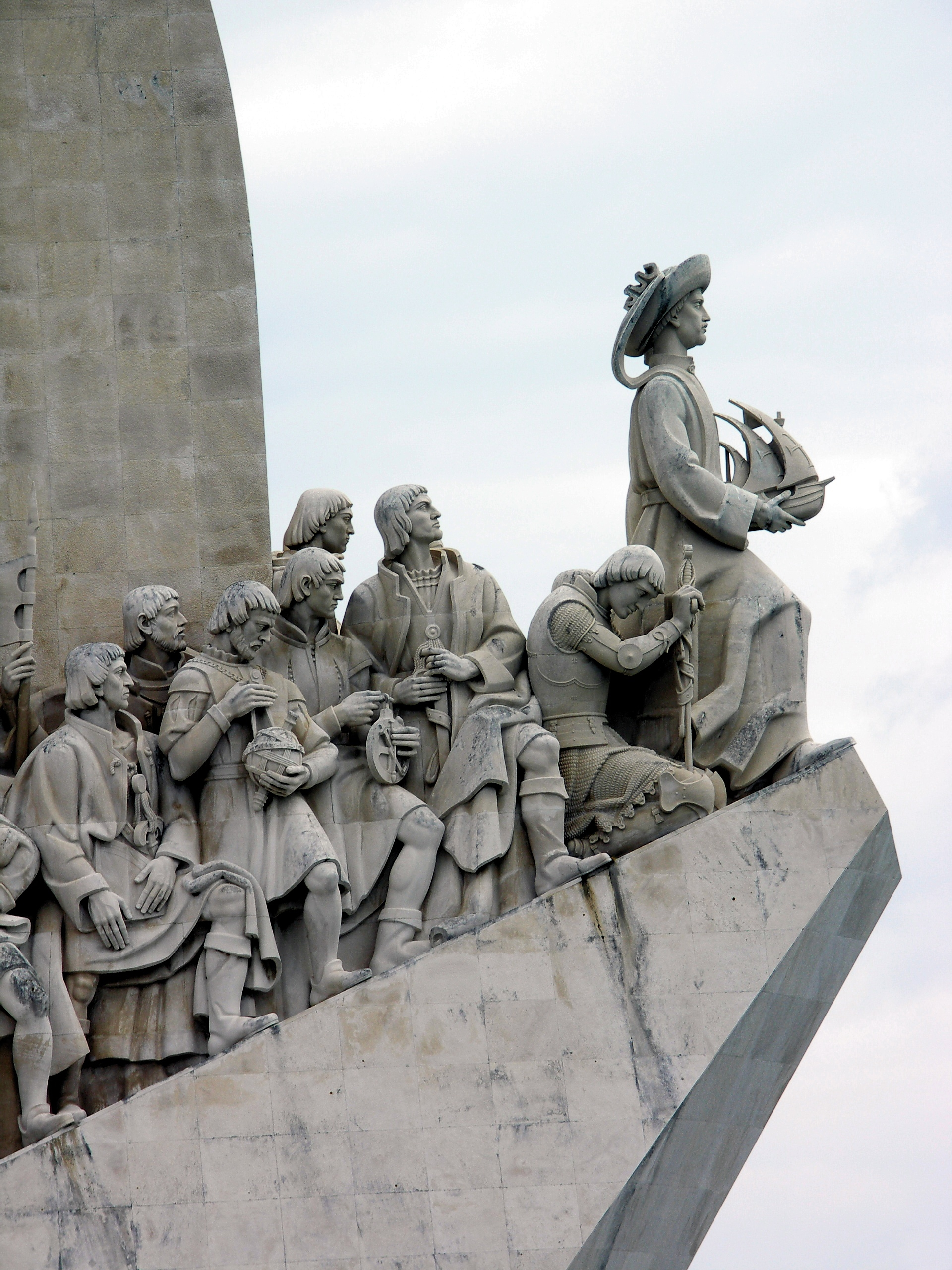 Monument to the Portuguese maritime discoveries (detail), Lisbon